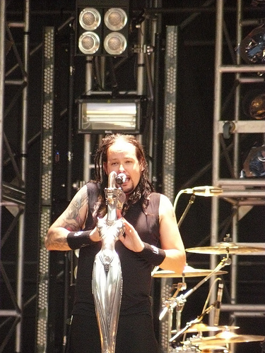 Jonathan Davis (Korn) at Idroscalo, Milano 26/06/2009